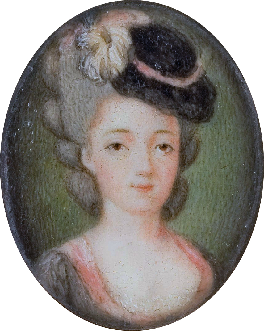 Gray dress acented with pink, a wig adorned with a black velvet hat dressed with white feathers and a pink ribbon, a green background, at the reverse label 'Marquise/de/la Fayette/née Noailles'